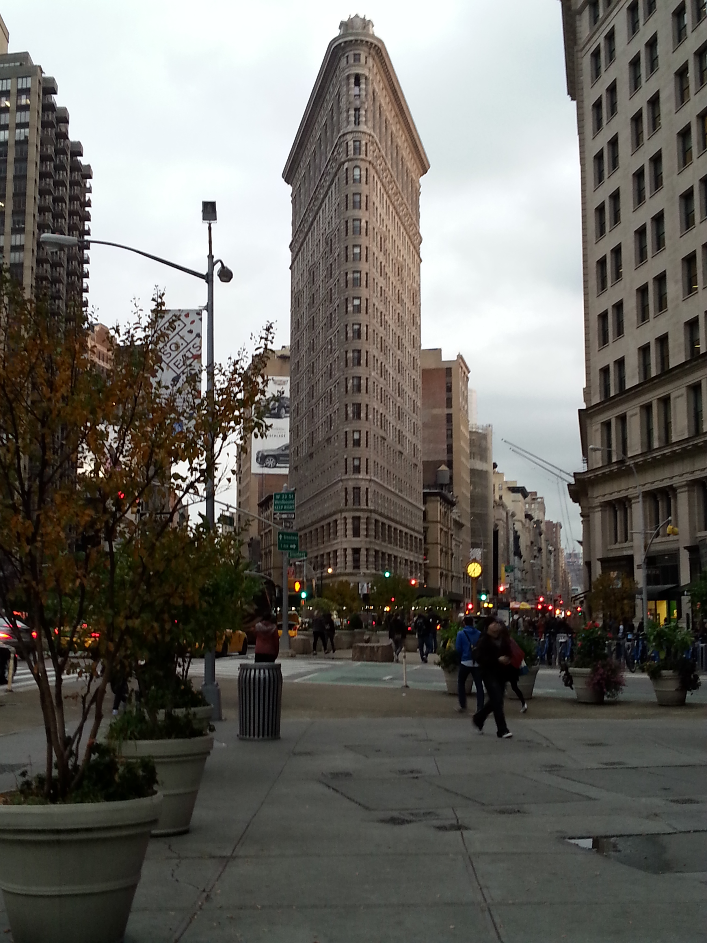 Flatiron building NYC